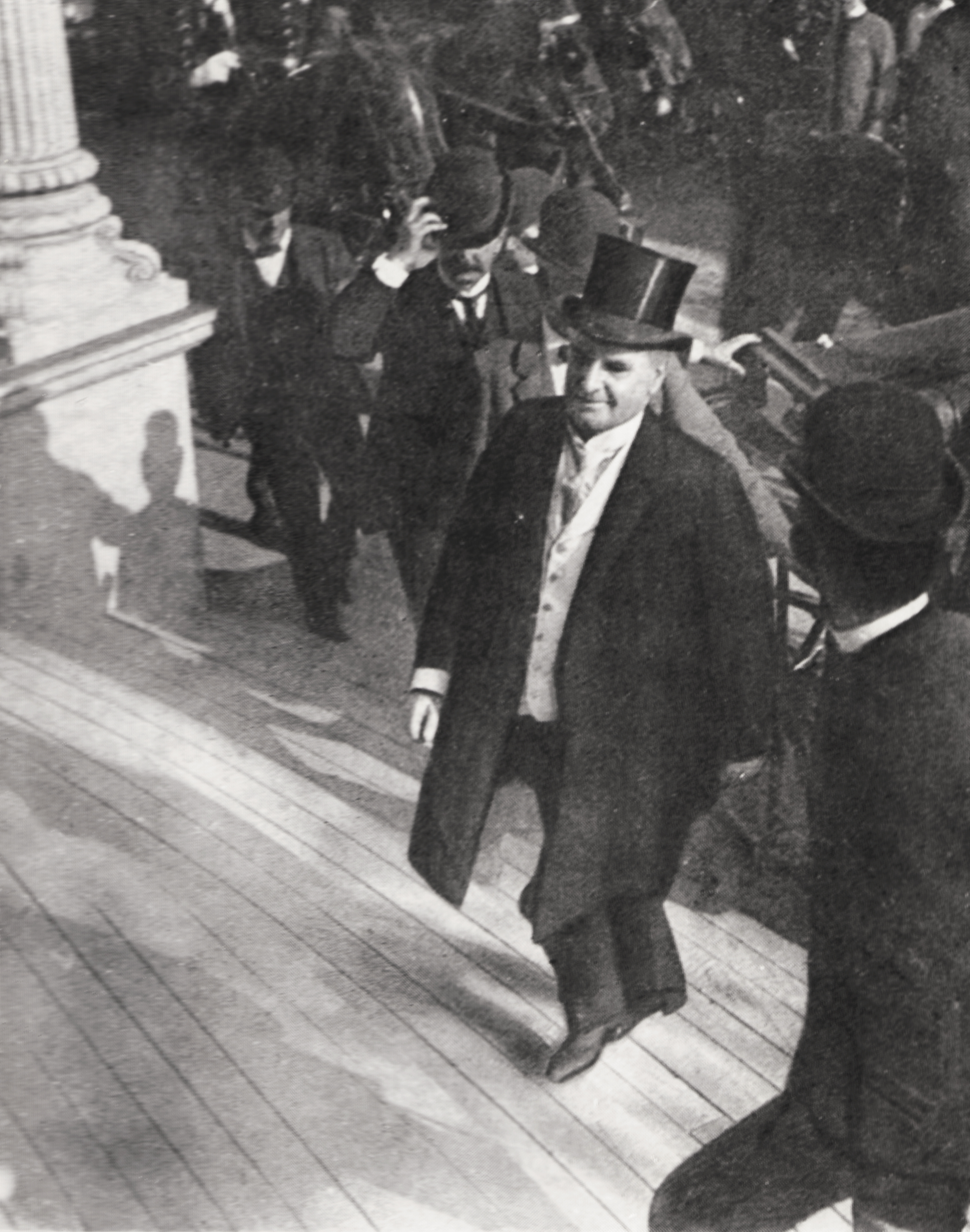 One of the last photographs of the late President McKinley. Taken as he was ascending the steps of the Temple of Music, September 6, 1901.